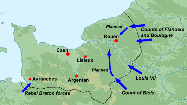 Blank topographic map of France in the official Lambert-93 projection, with details of Normandy campaign in 1205 overlaid, information from Warren "King John", p.98. Note: The background map is a raster image embedded in the SVG file.